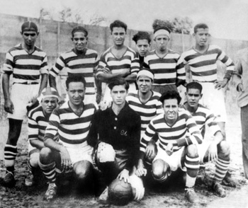 Club africain 1934-1935